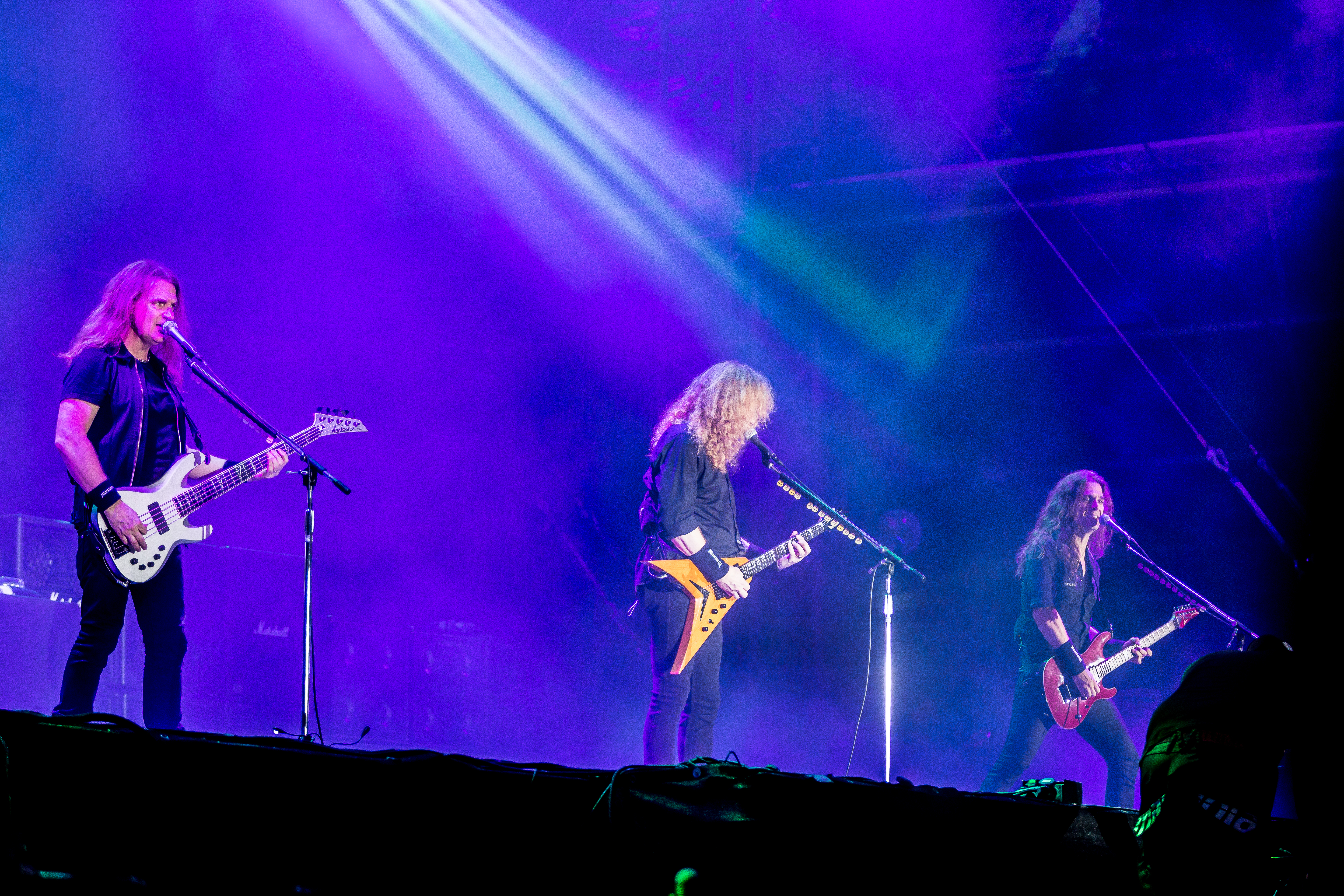 The American thrash metal band Megadeth at the Summer Breeze Open Air 2017 in Dinkelsbühl/Germany.